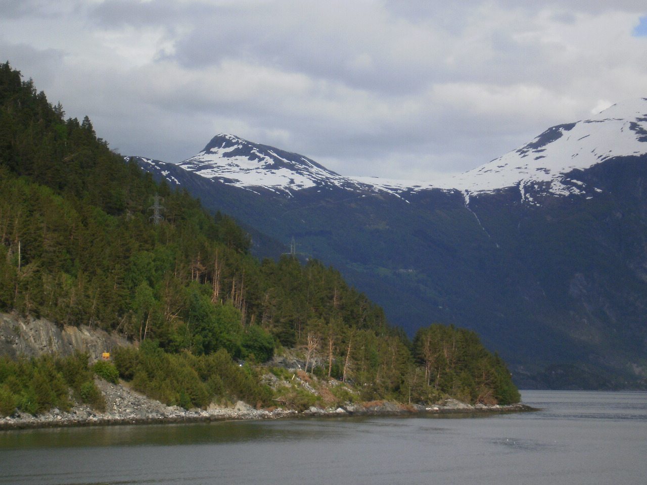 Mountains in Norway